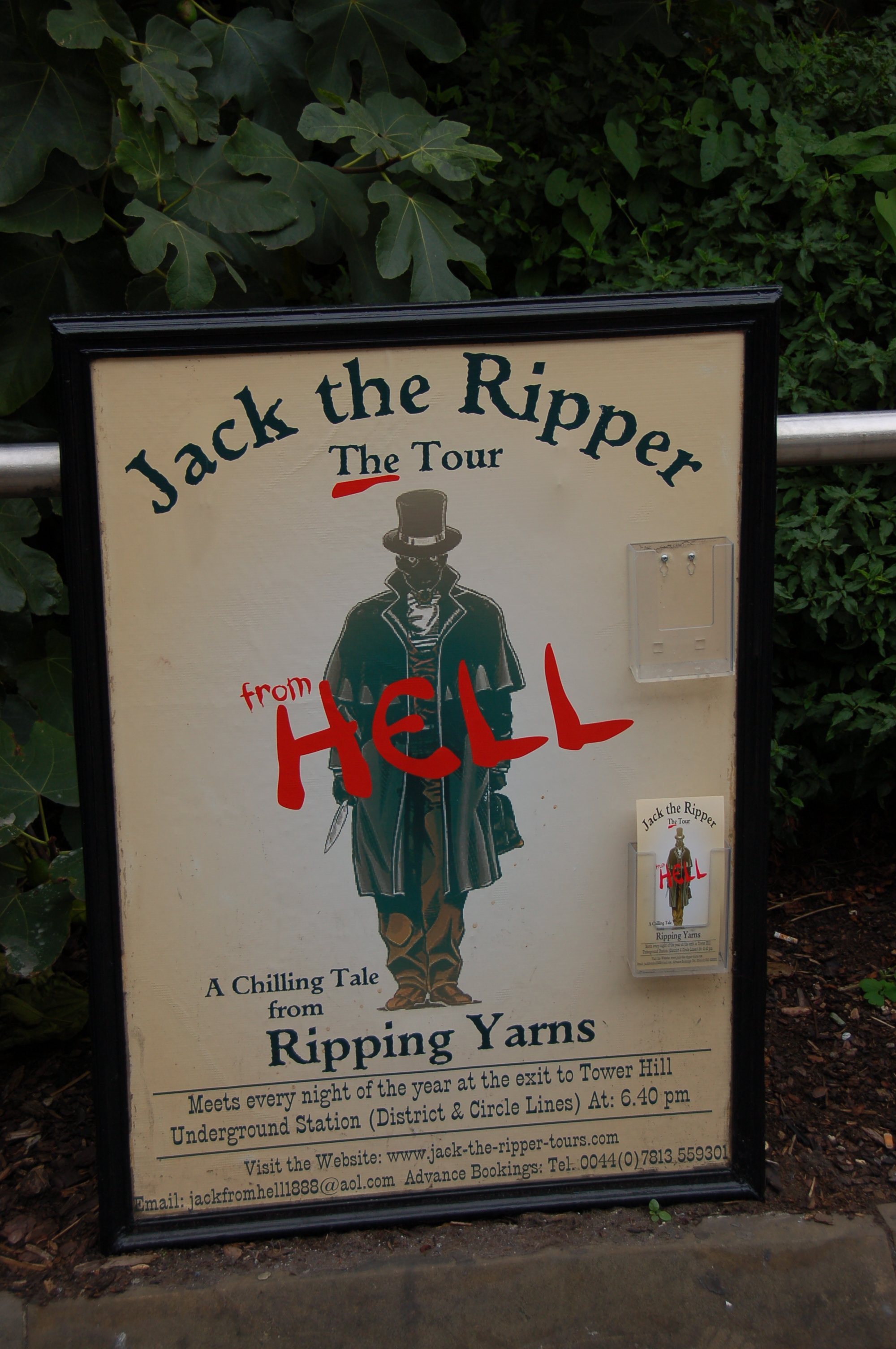 Sign of the "Jack the Ripper Tour" in London, UK